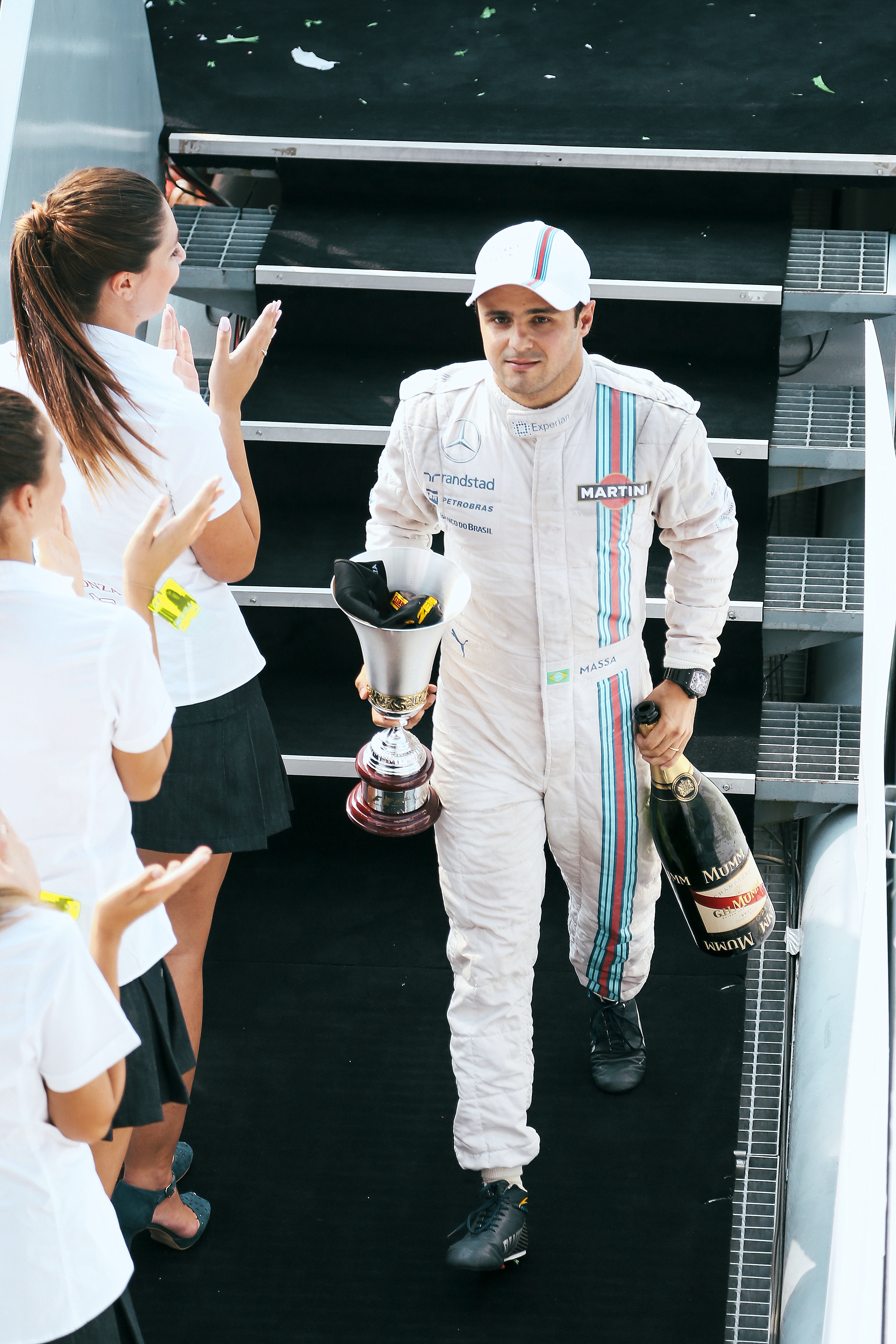 Felipe Massa leaving the podium of 2014 Italian Grand Prix. Autodromo Nazionale Monza.